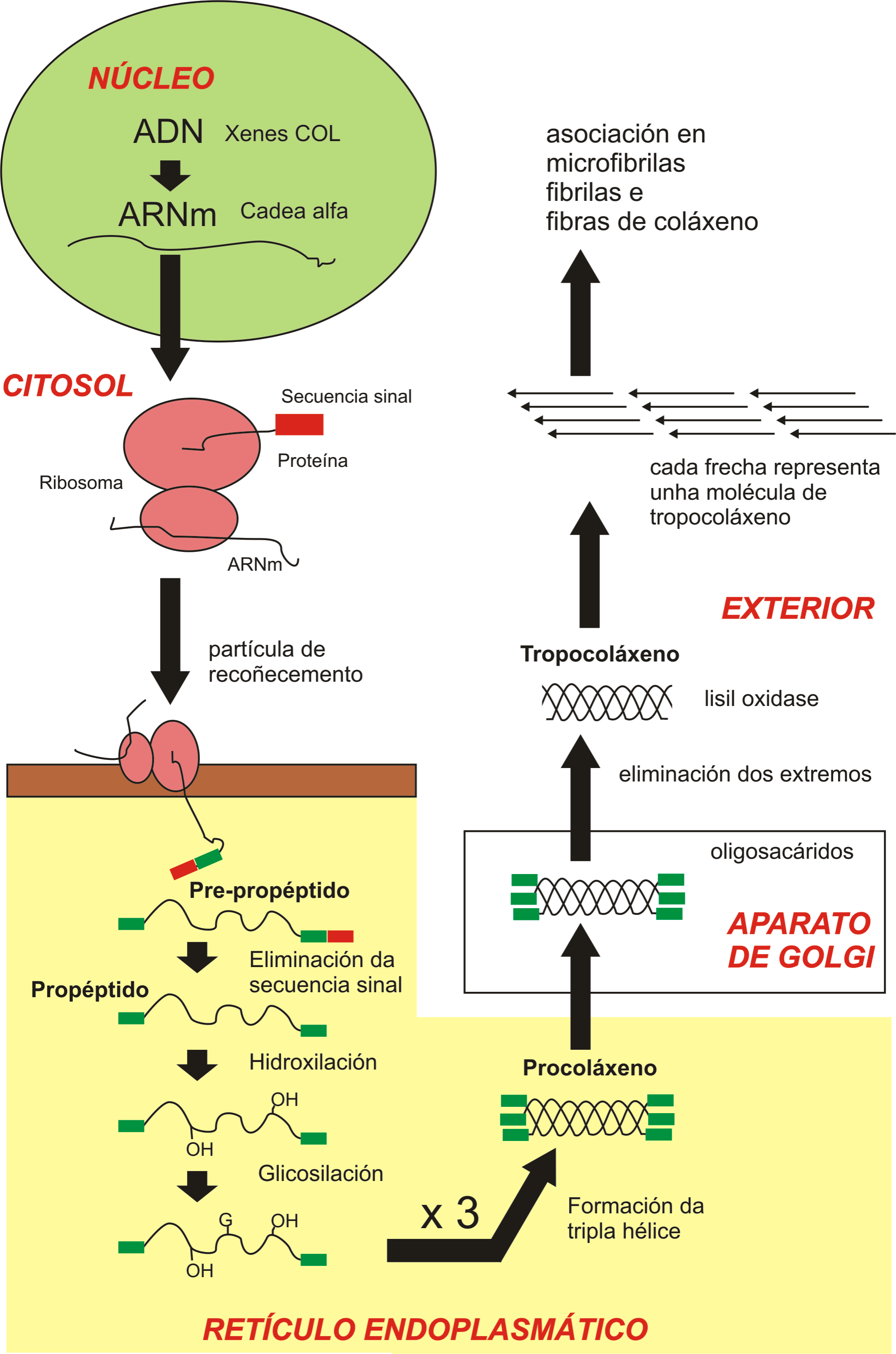 collagen synthesis labelled in Galician